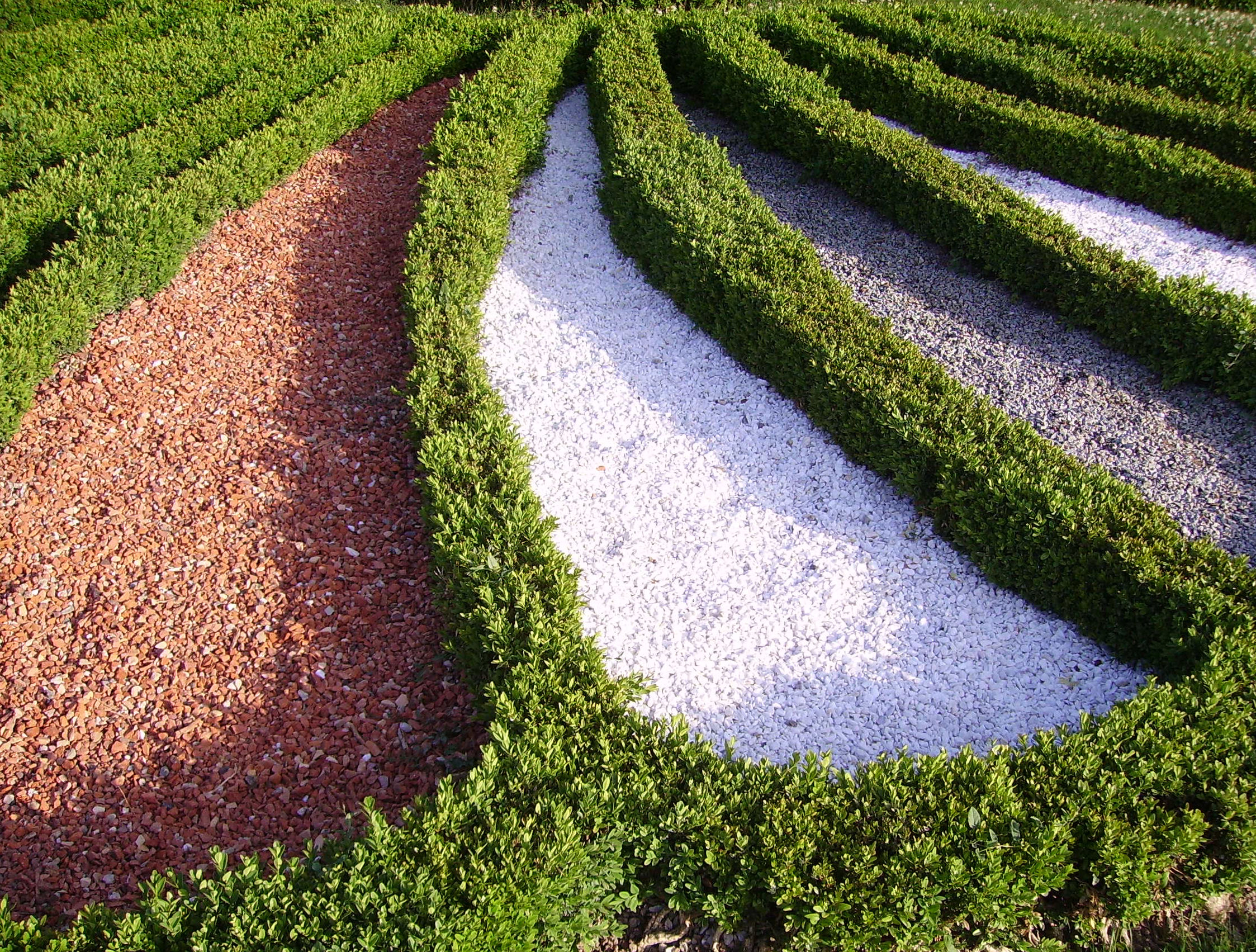 Parterre in Baroque Garden at Schloss Ludwigsburg — in Ludwigsburg, Germany.